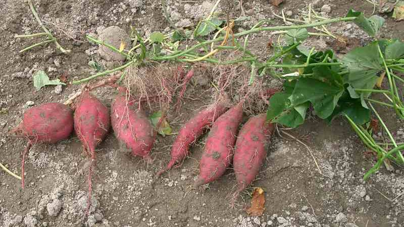 Ipomoea batatasL. (Sweet Potato)